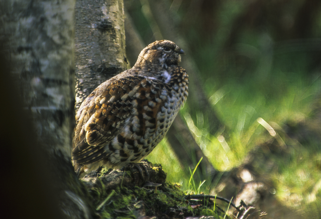 Hazel Grouse - Bayerish Park - Germany_0016